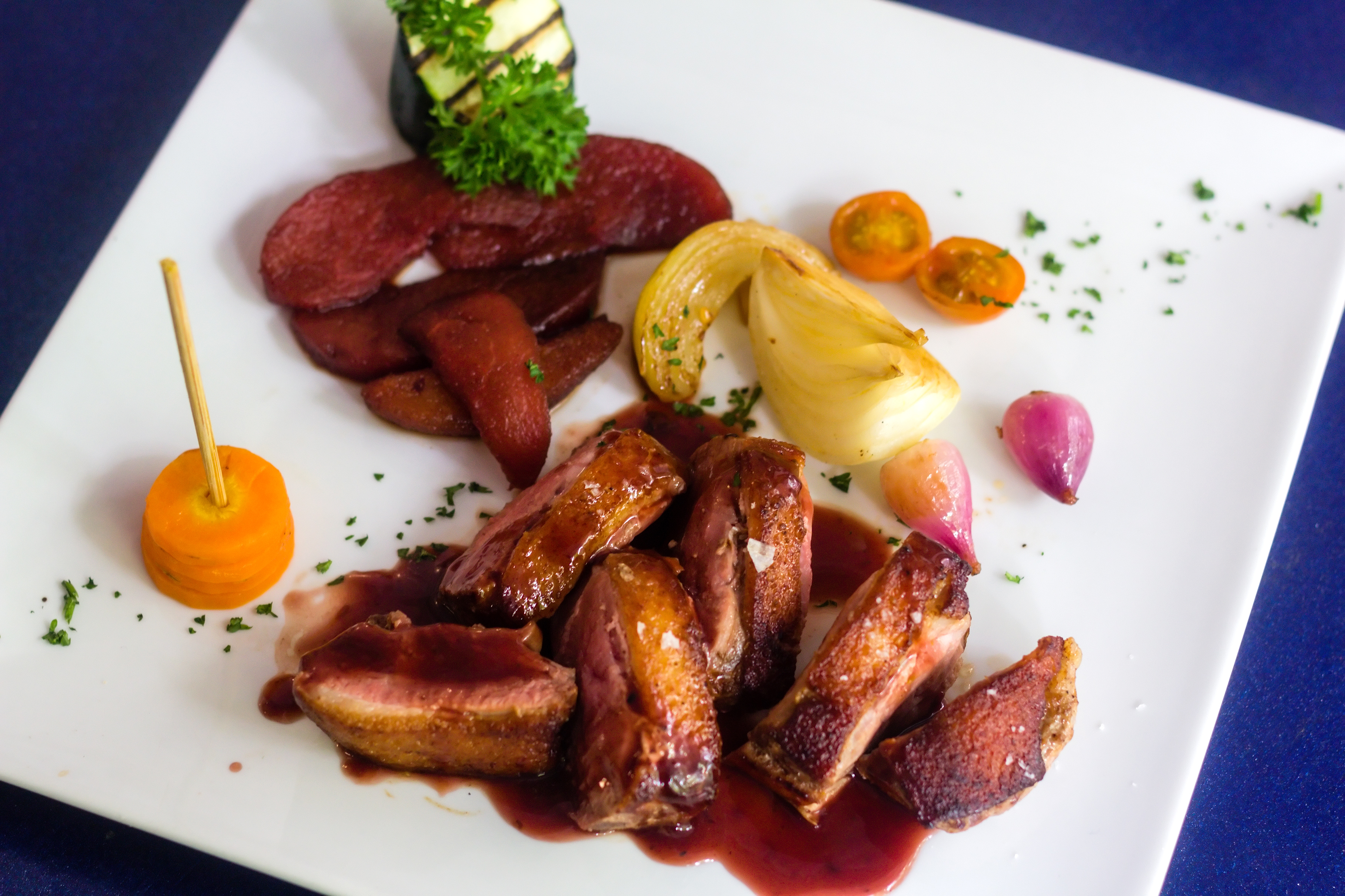 Duck confit at SixSenses Kitchen, Yogyakarta, 2016-01-23